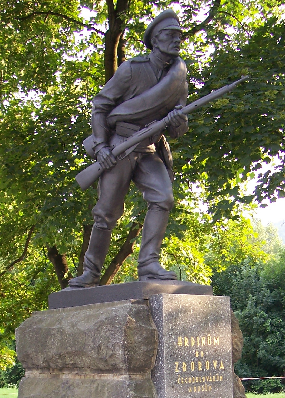 memorial devoted to Battle of Zborov (1917) (Ukraine) in Blansko (The Czech Republic)